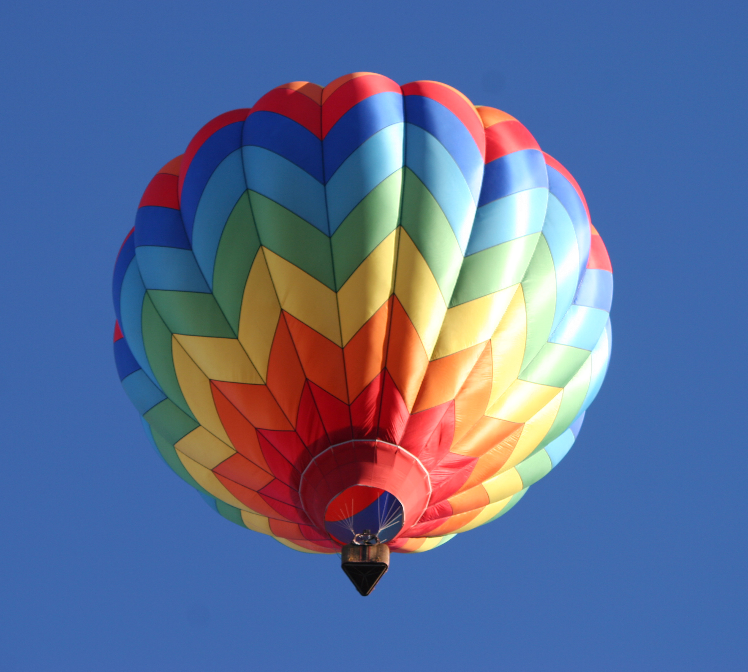 Hot Air Balloon in 2012 Albuquerque International Balloon Fiesta